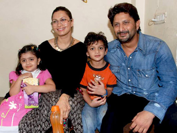 Maria Goretti and Arshad Warsi with kids at Golmaal 3 team celebrates with kids